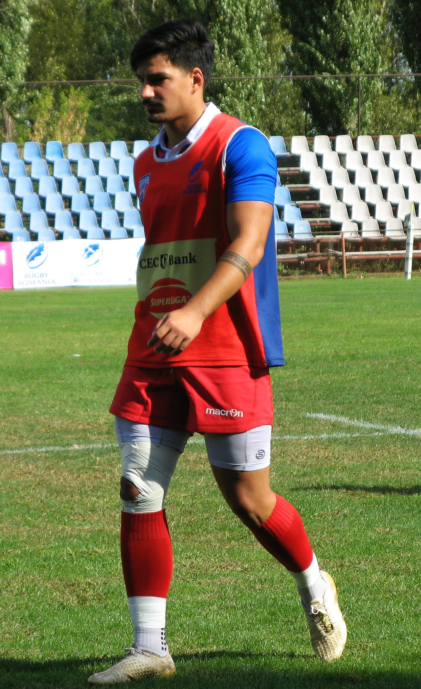 Romanian rugby union football player Tudor Boldor, player of CSA Steaua București rugby club seen training before a match against Timișoara Saracens in Round 3 of Romanian Rugby SuperLiga in September 2018